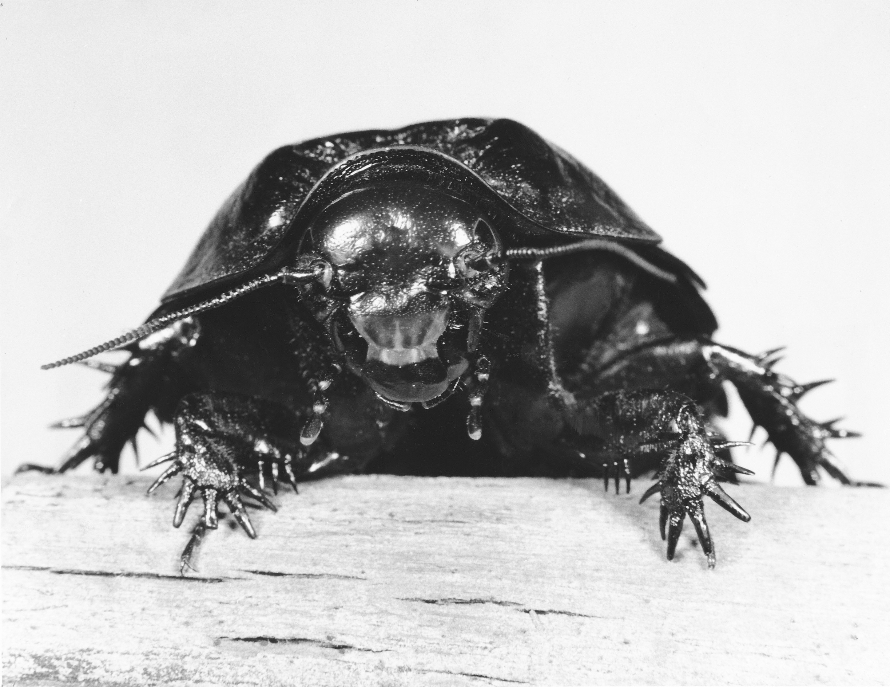 The giant burrowing cockroach (Macropanesthia rhinoceros), a native of northern Queensland, is the heaviest of the cockroach family (Blaberidae). It can weigh up to 35gm and attain a length of 80mm.